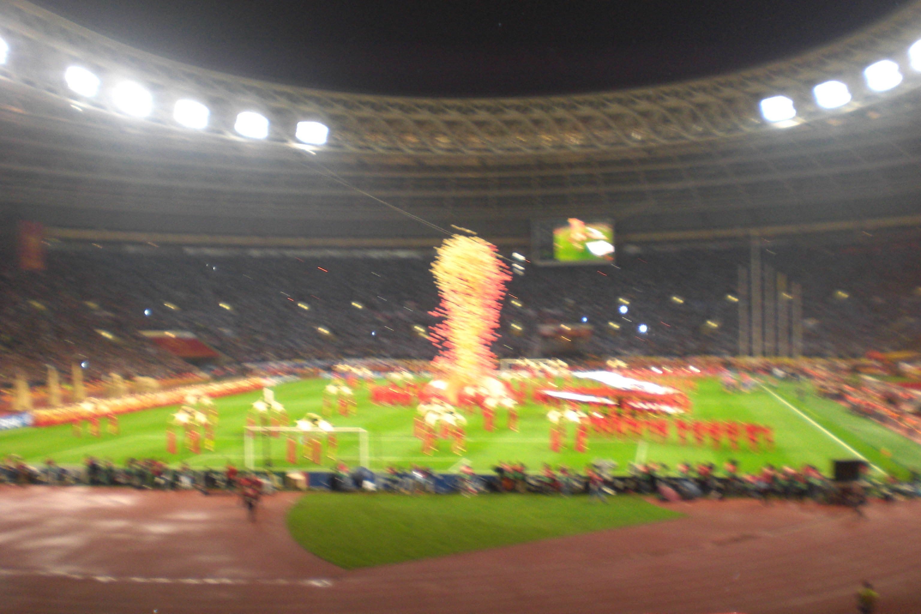 Champions League final at Luzjniki Stadion, Moscow